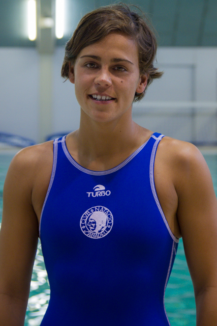 Olga Domenech is a spanish female water polo player